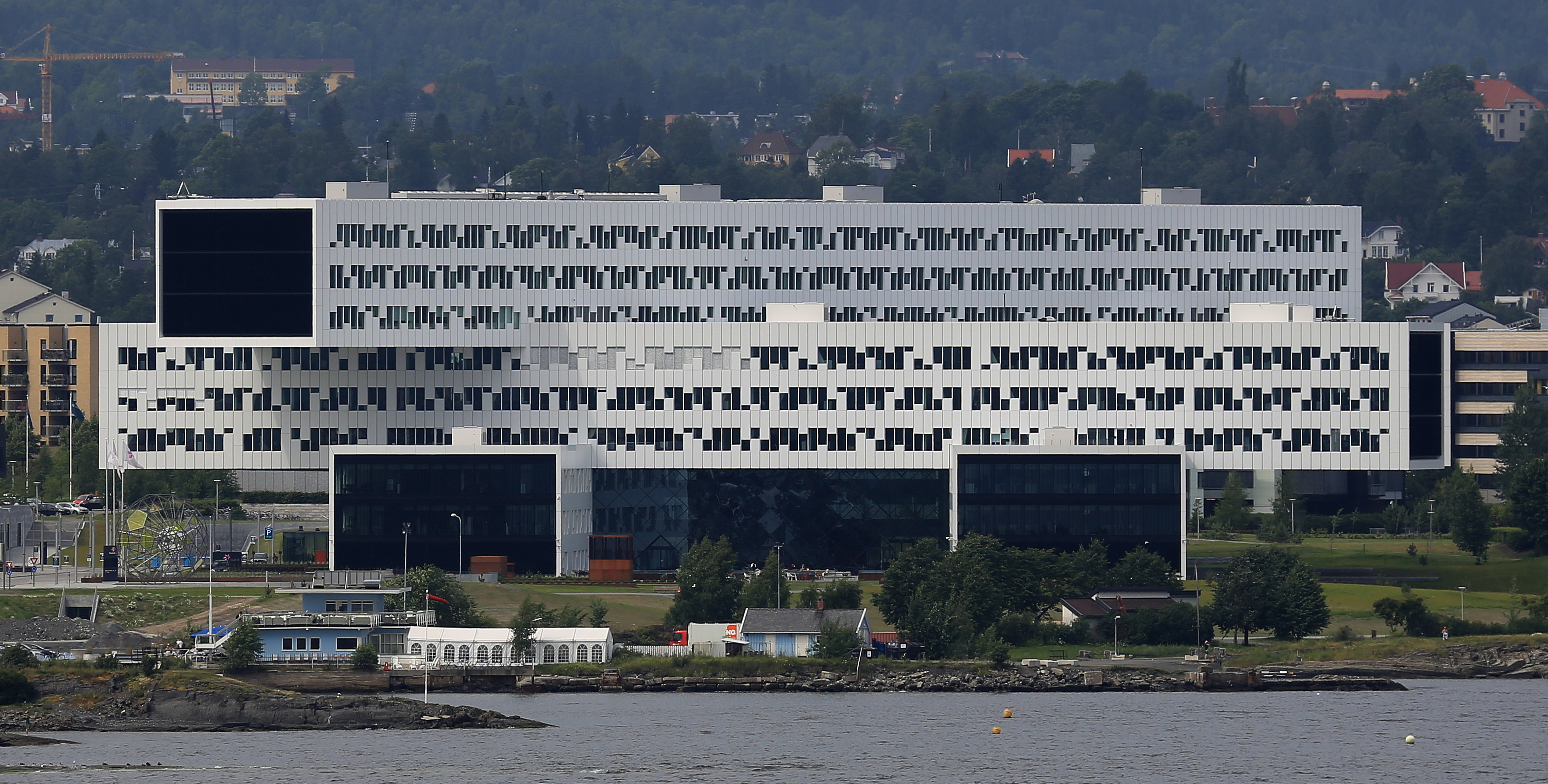 Statoil regional and international offices at Fornebu outside Oslo, Norway seen from the sea. Design by the architect office A-lab.